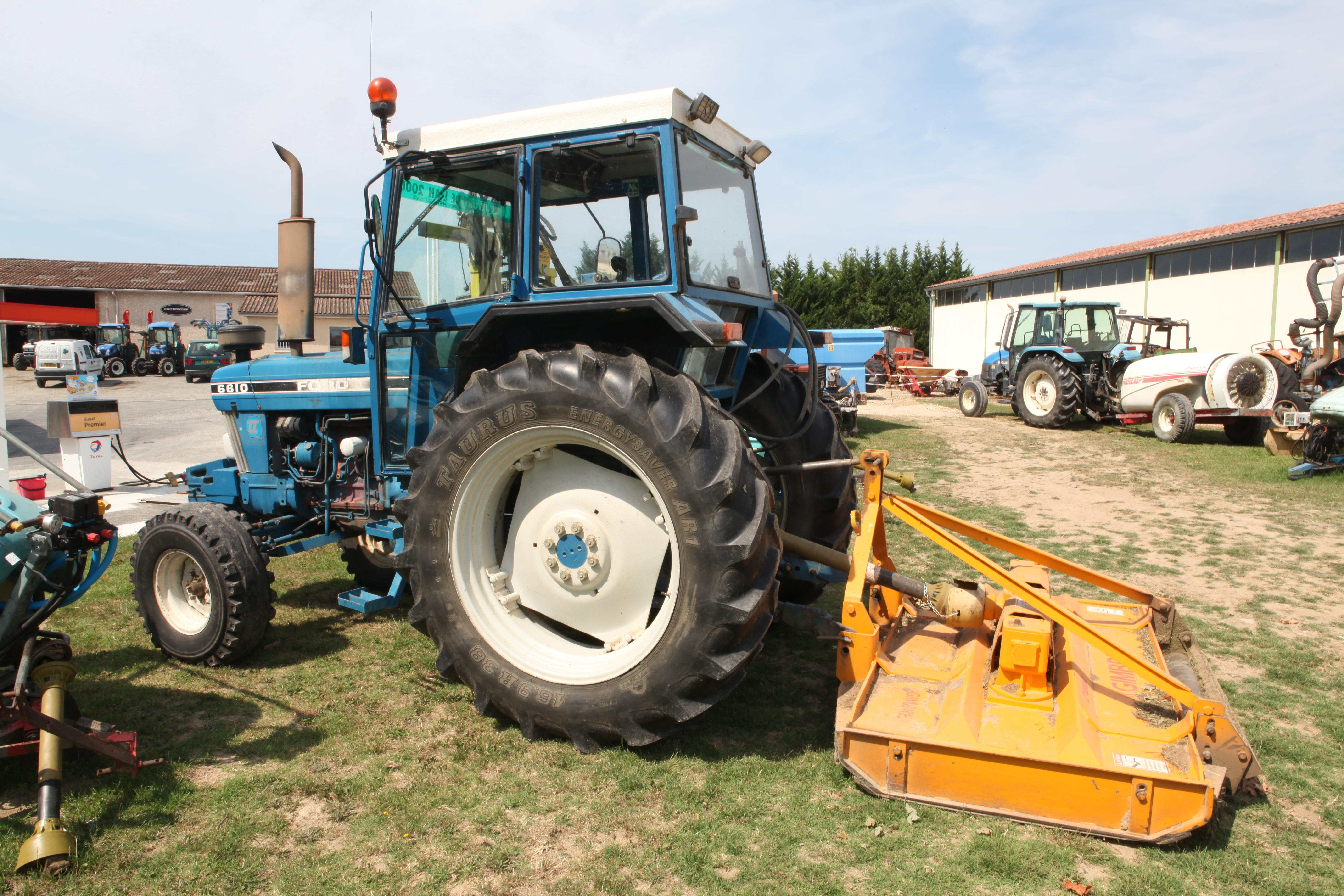 Ford 6610 tractor, produced 1982 to 1993